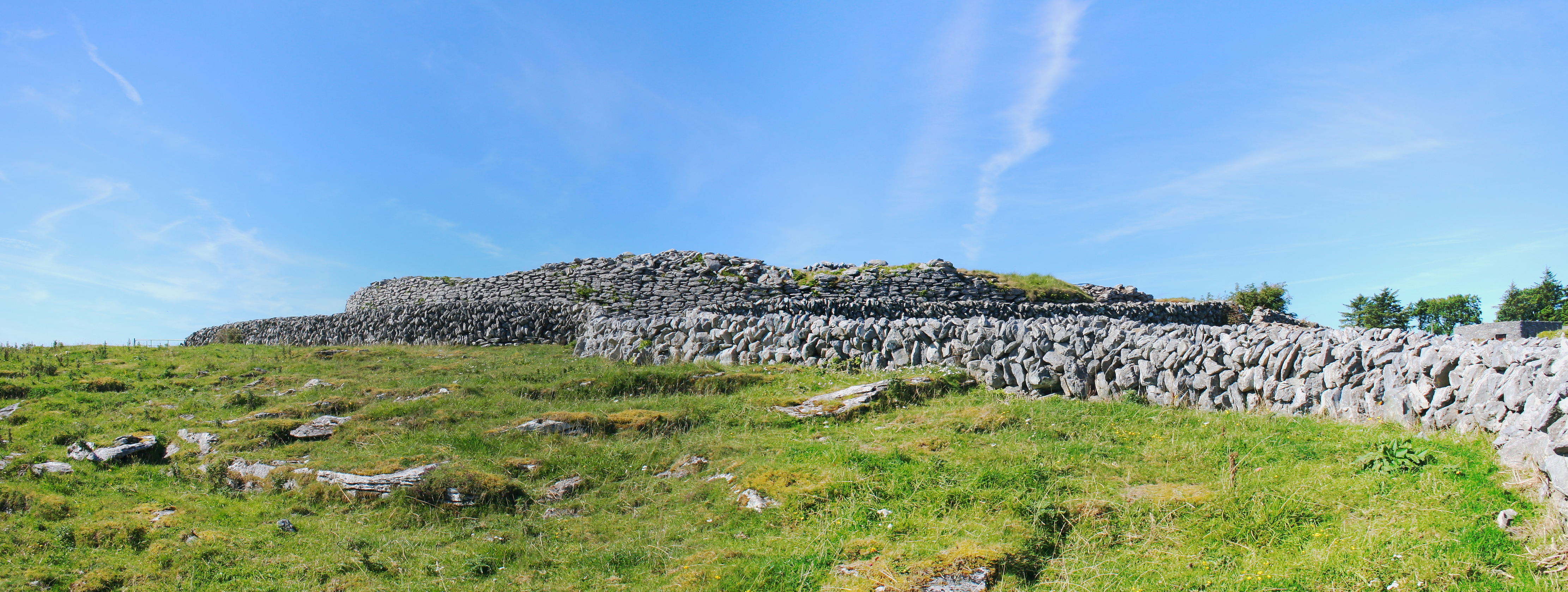 Caherconnell Fort, County Clare, Ireland